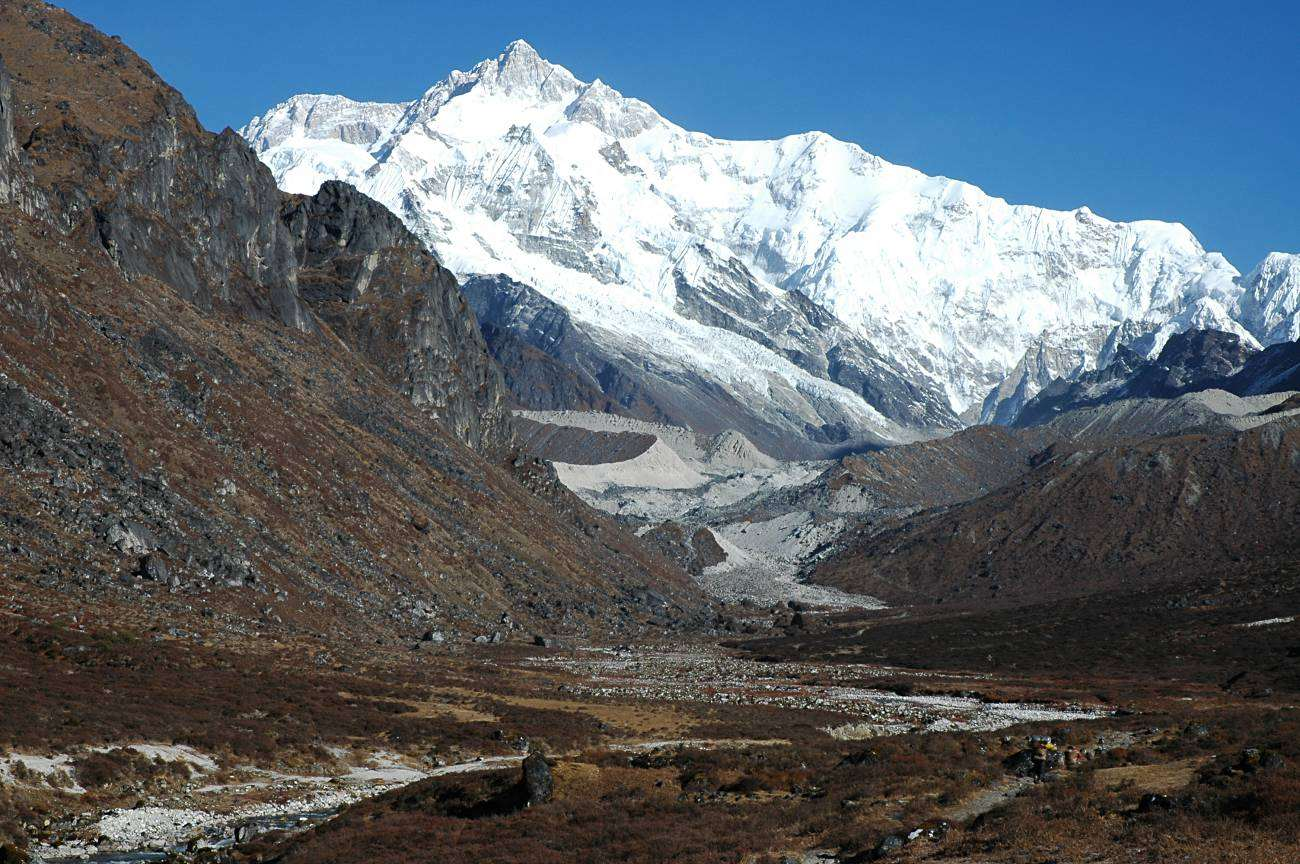 Kangchenjunga, 3rd-highest peak on earth (8'586 m), from Thangshing on the Dzongri/Goecha La trek.